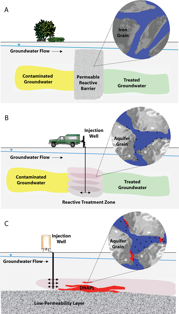 Different types of "iron wall" permeable reactive barriers